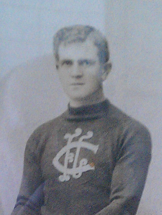 Photo of Joe Andrew in 1914